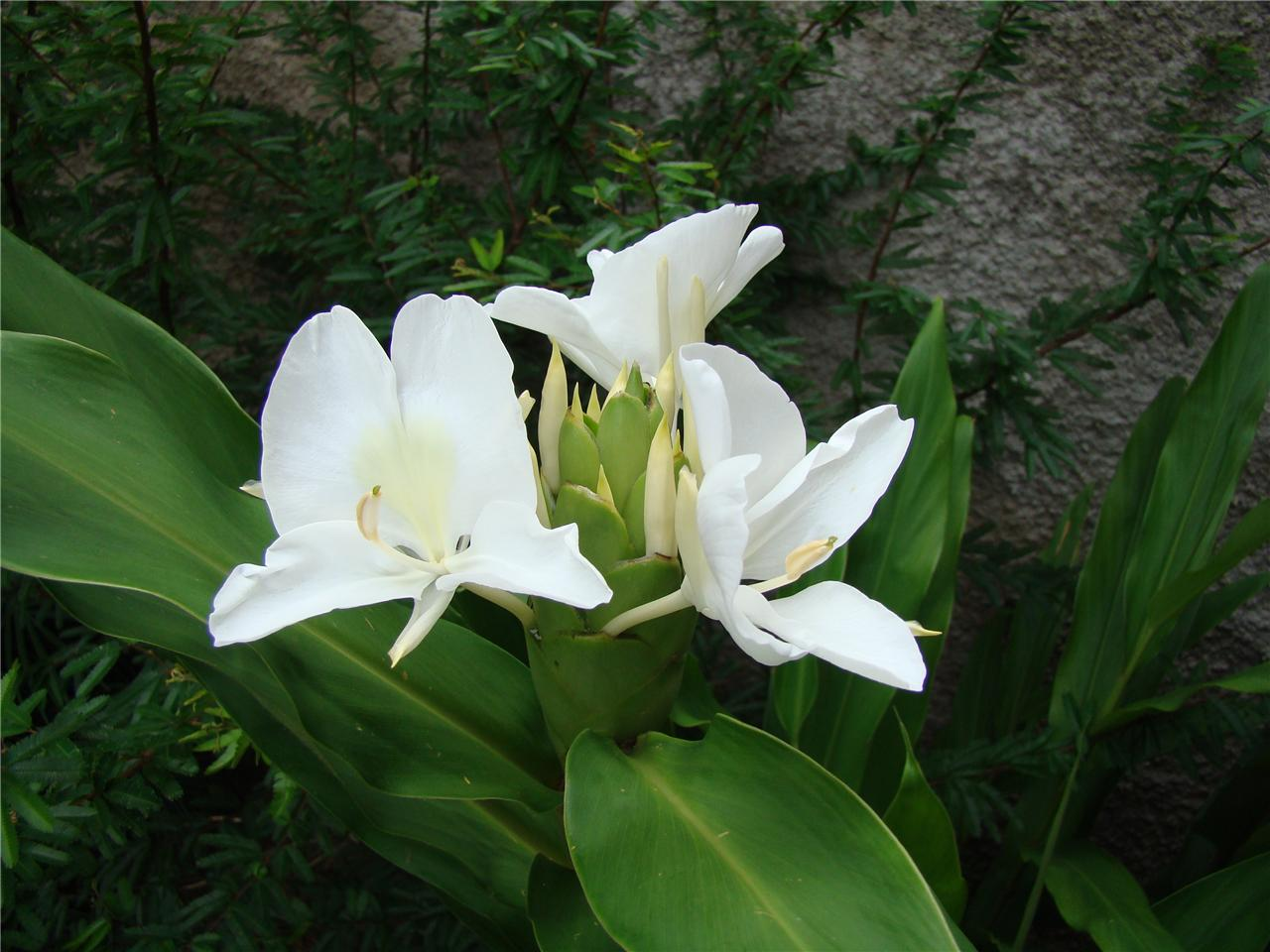 White ginger lily Hedychium coronarium